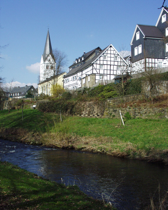 City Wiehl - Protestant church and restored, typical oberbergische half-timbered houses of the city center